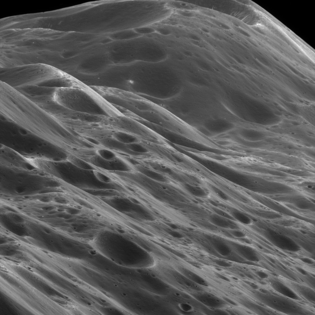 This stunning close-up view shows mountainous terrain that reaches about 10 kilometers (6 miles) high along the unique equatorial ridge of Iapetus. The view was acquired during Cassini's only close flyby of the two-toned Saturn moon. Above the middle of the image can be seen a place where an impact has exposed the bright ice beneath the dark overlying material. The image was taken on Sept. 10, 2007, with the Cassini spacecraft narrow-angle camera at a distance of approximately 3,870 kilometers (2,400 miles) from Iapetus. Image scale is 23 meters (75 feet) per pixel.